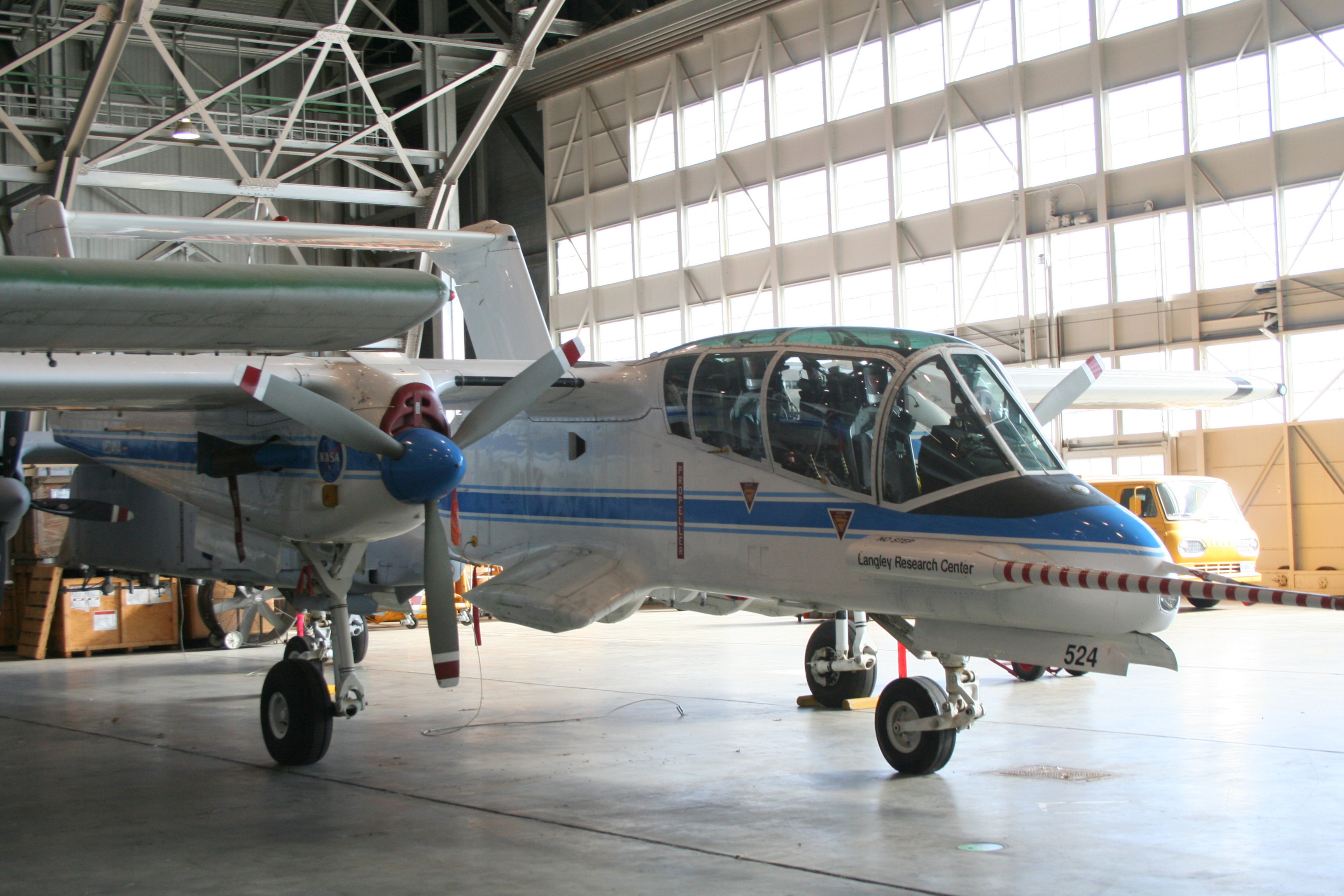 NASA OV-10 Bronco at the Langley Research Center